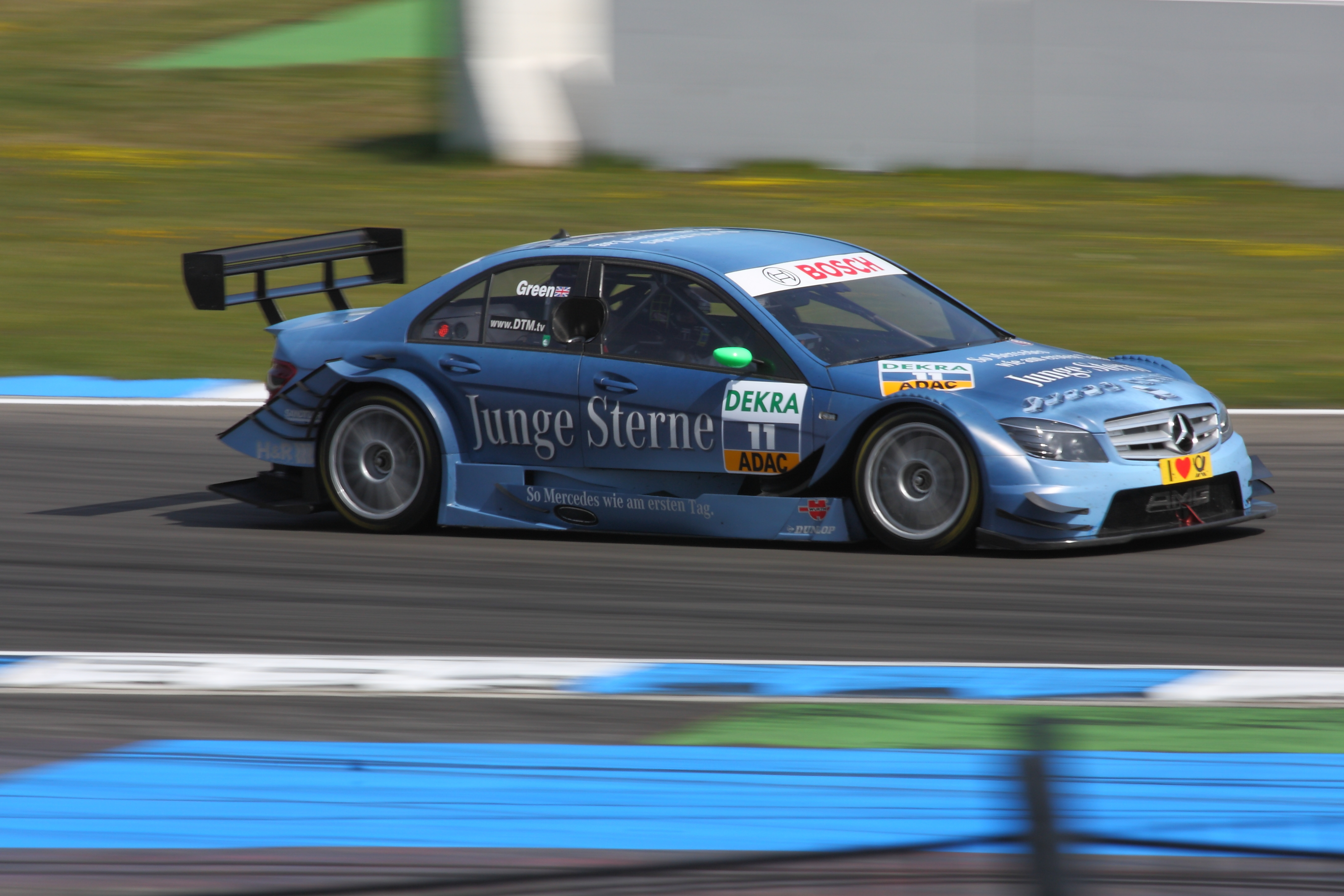 DTM car Mercedes-Benz Season 2020 (C-Class, W204), Jamie Green (driver))